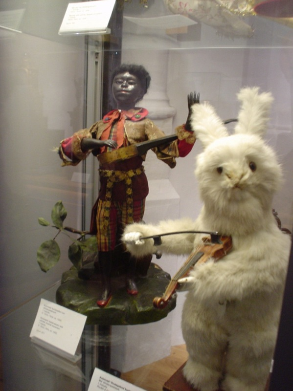 1 March 2007 These statuettes are also music boxes. At the music box museum in Utrecht